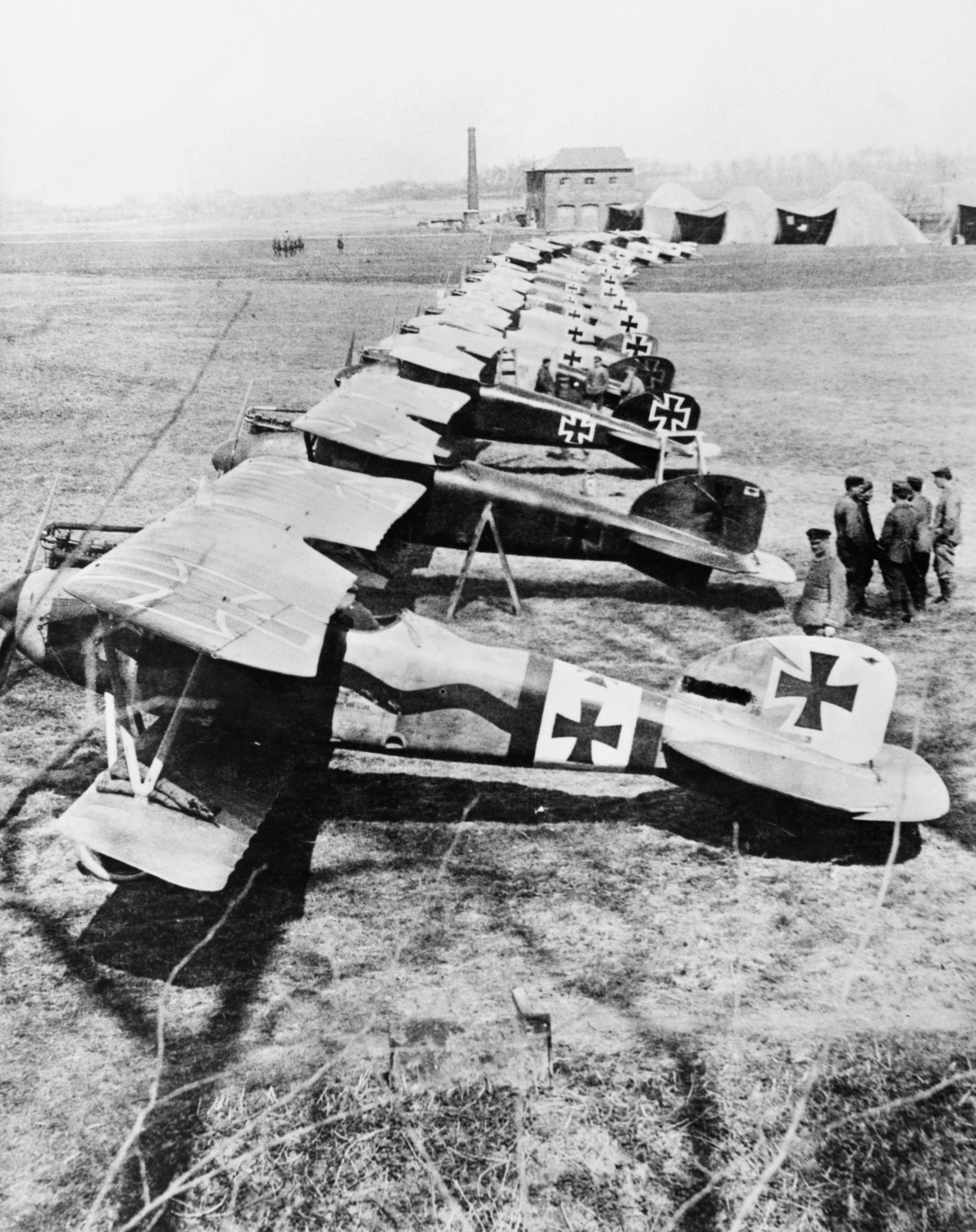 German Albatros D.IIIs of Jagdstaffel 11 and Jagdstaffel 4 parked in a line at La Brayelle near Douai, France. Manfred von Richthofen's red-painted aircraft is second in line (with boarding step ladder in place).